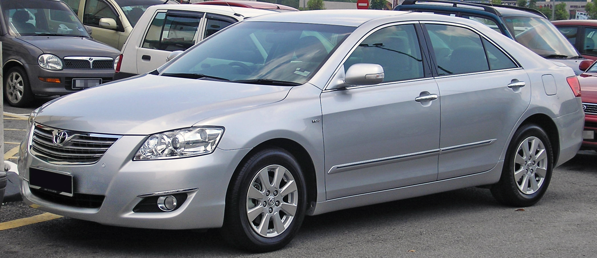 Front-side shot of a sixth generation Toyota Camry 2.0G (essentially a rebadged Toyota Aurion, which in turn is based on the sixth-generation JDM/US Camry), in Serdang, Selangor, Malaysia.